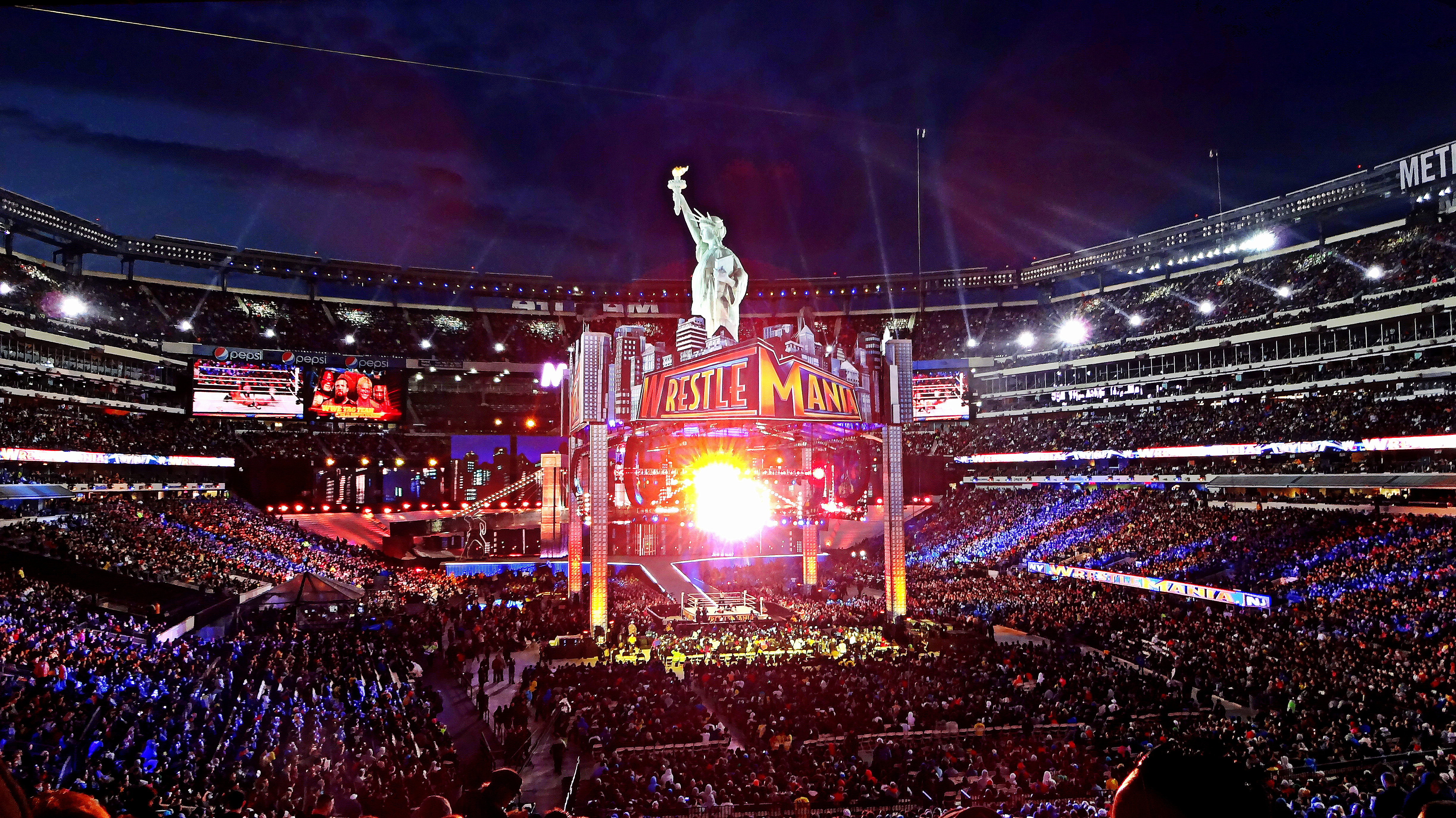 Wrestlemania 29: Brock vs. Triple H